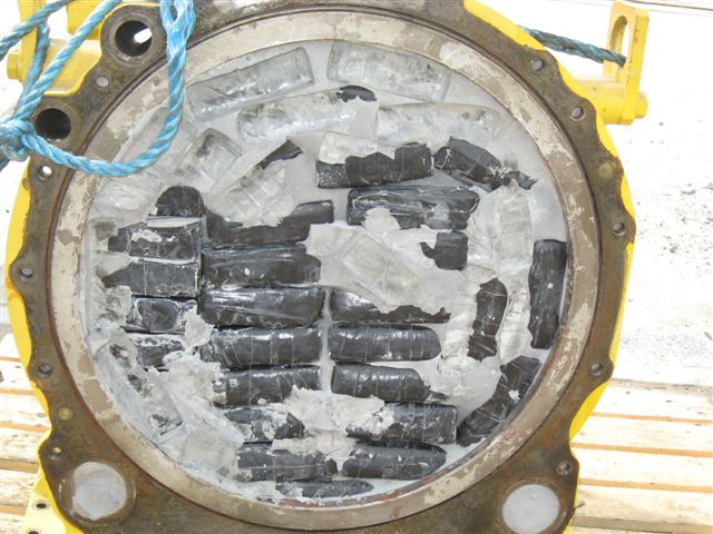 Cocaine with a street value of £8.25m has been seized by the UK Border Agency at Tilbury – the biggest single detection of class A drugs at the port in six years. The smugglers had hidden the drugs inside three pieces of industrial digger machinery shipped by container from Surinam and destined ultimately for Holland. Sections of the machinery had been hollowed out and then filled with 145 individual packages of the Class A drug, totalling 166kg. Read the full news story on the Home Office website